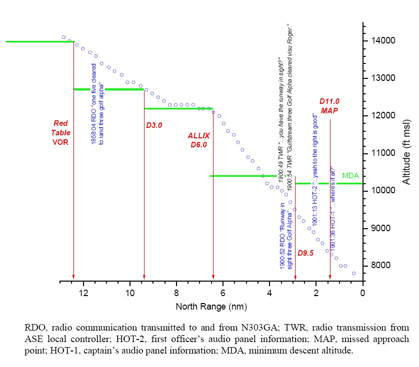 Diagram from U.S. NTSB, a federal agency, prepared during investigation of crash of N303GA, included in final report